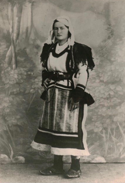 Tringë Smajlja